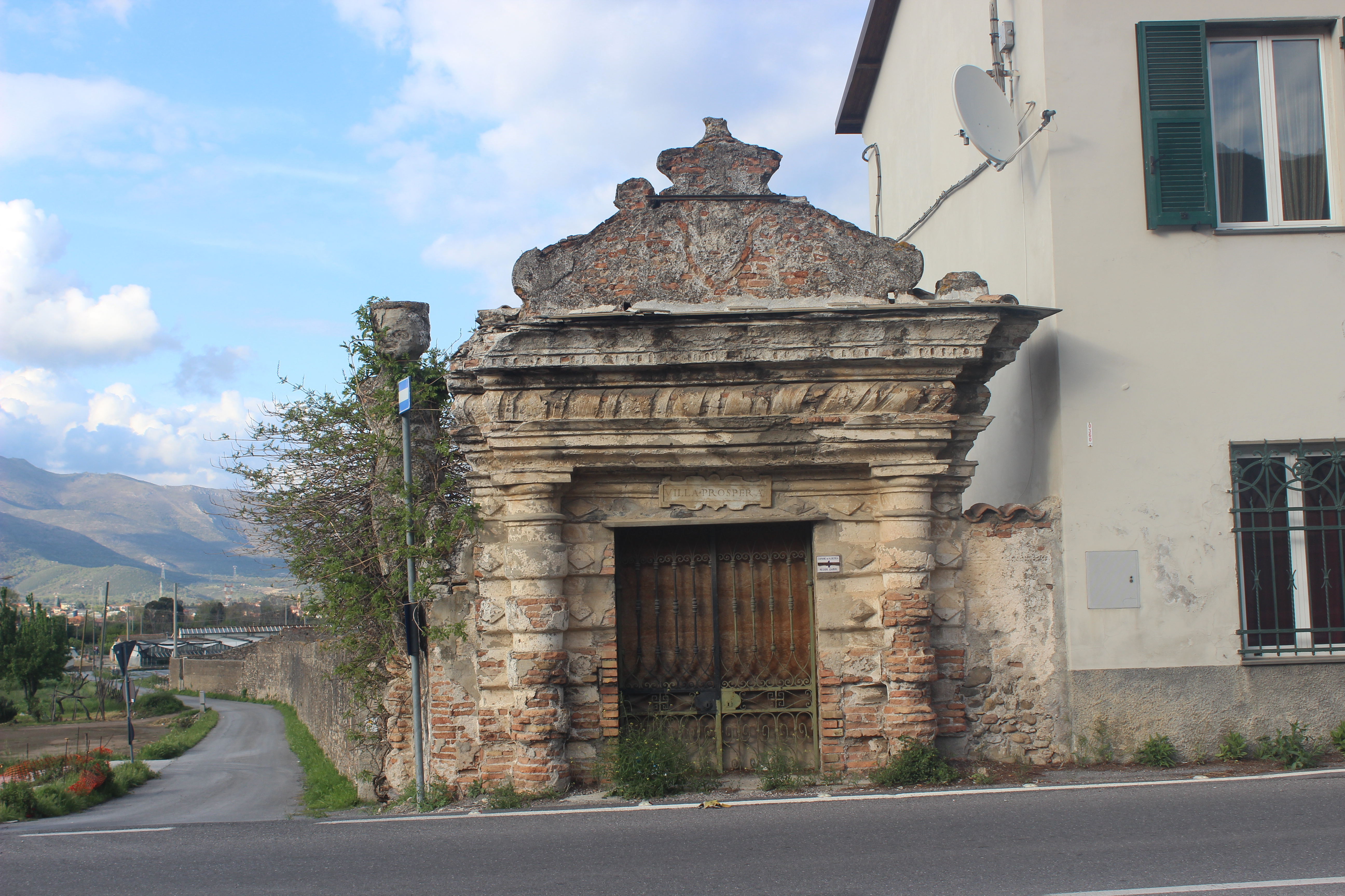 Portal of Villa Prospera of Lusignano (Albenga), with the statue of the big man Ligure: A' porta de Villa Prospere de Luxignan de Arbenga, à se vegge a statua de l' ommu grossu